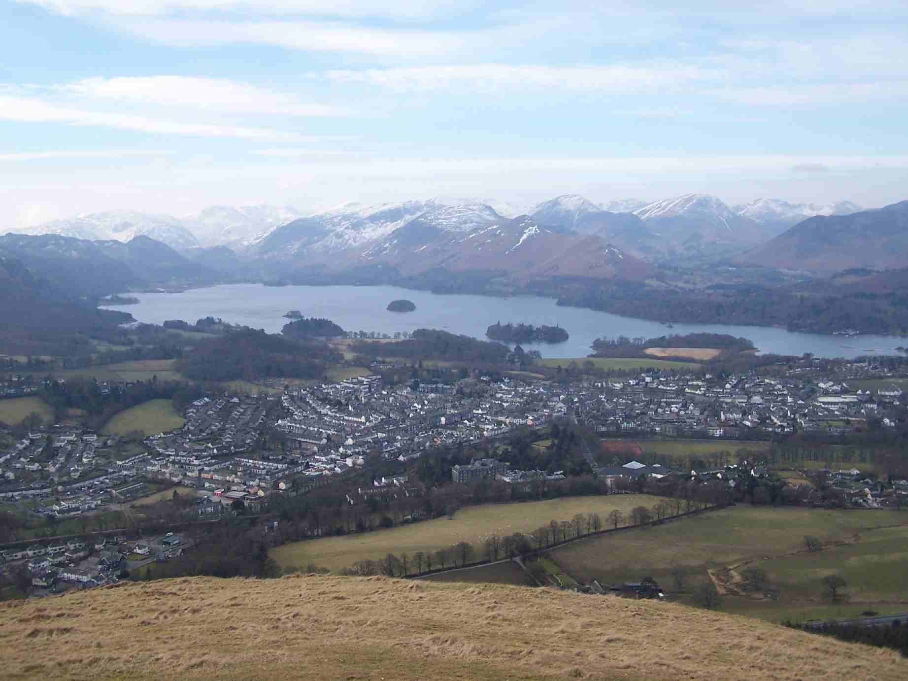 Personal photograph taken by Mick Knapton on March 23rd 2006